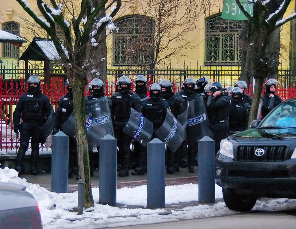 Large on black